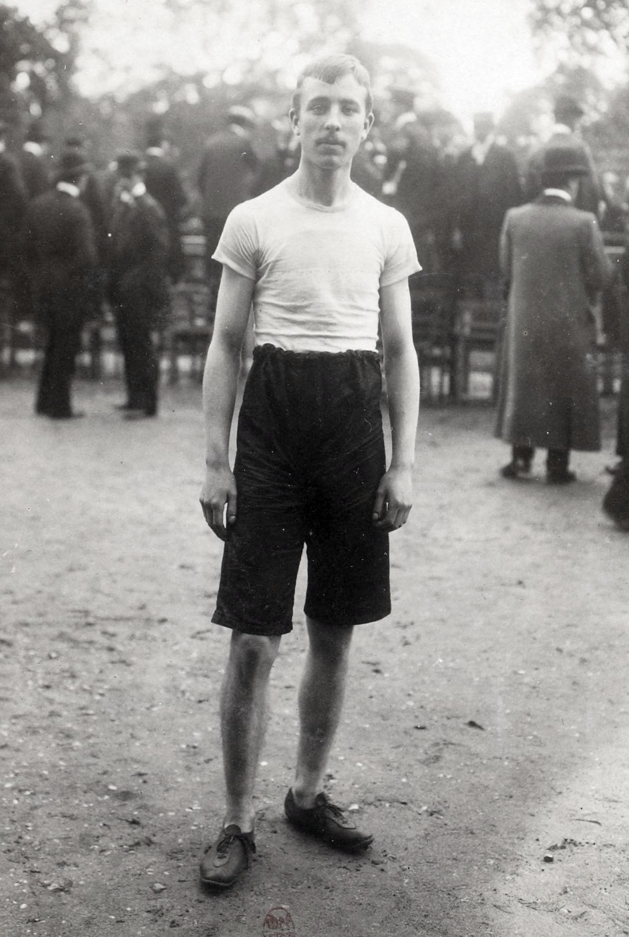 [Collection Jules Beau. Photographie sportive] : T. 7. Année 1898 / Jules Beau : F. 21. Widmer ; Delannoy ; Salomon; Albert Delannoy, champion de France du saut en longueur en 1898.